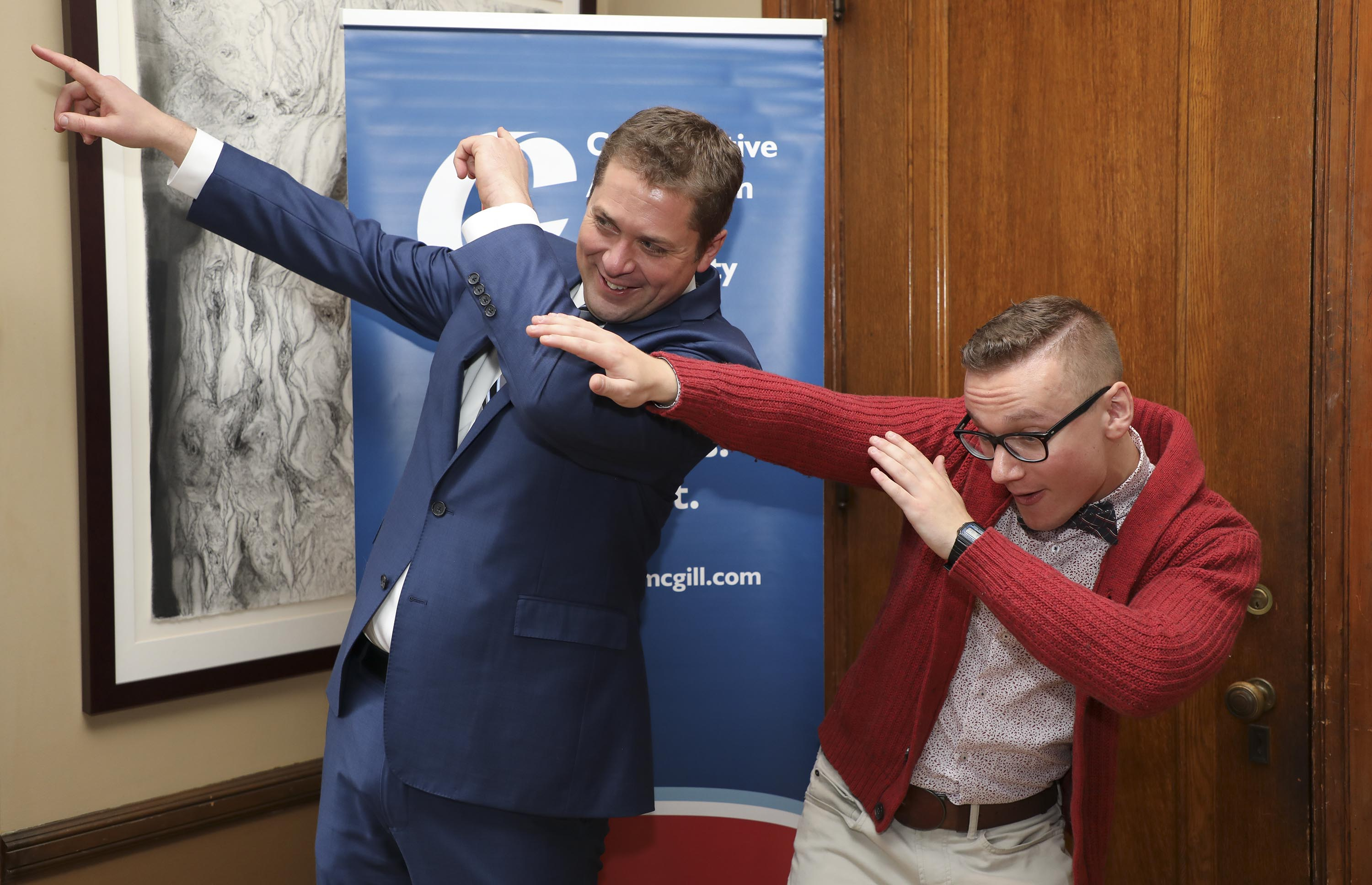 Thank you to CPC McGill and Concordia University Conservatives for making time during a busy time of year to chat today. I also appreciated the dabbing lesson!